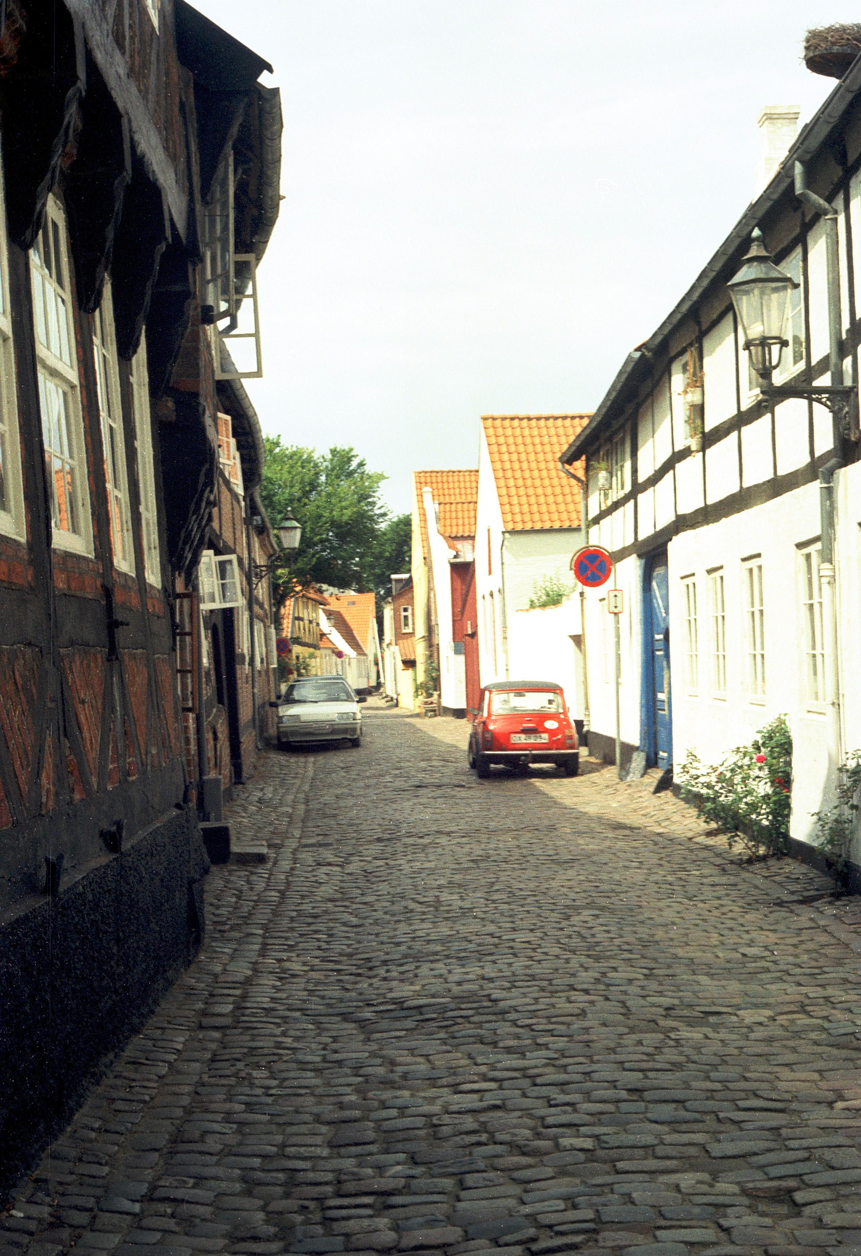 Ribe, the Fiskergade